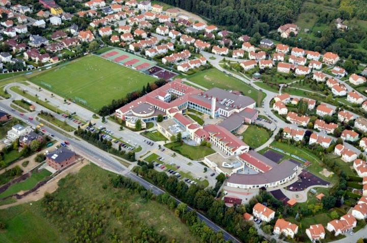 Aerial view of International School of Prague, Fall 2011